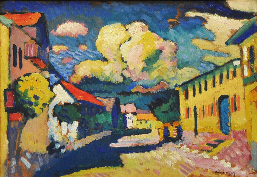 Murnau, Dorfstrasse (A Village Street), oil on cardboard, later mounted on wood panel, 48 x 69.5 cm, The Merzbacher collection, Switzerland